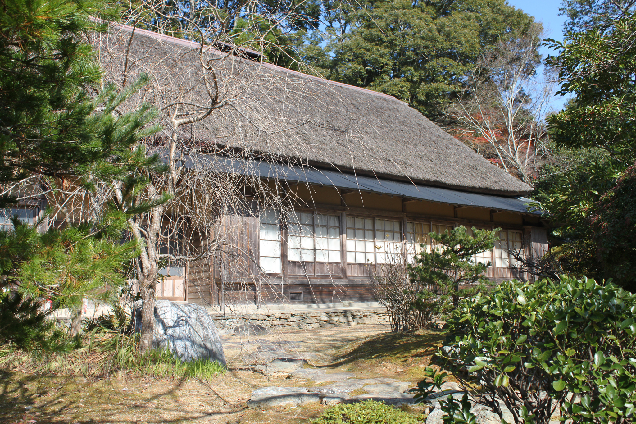 Miki Residence, main building. Mima City, Koyadaira.